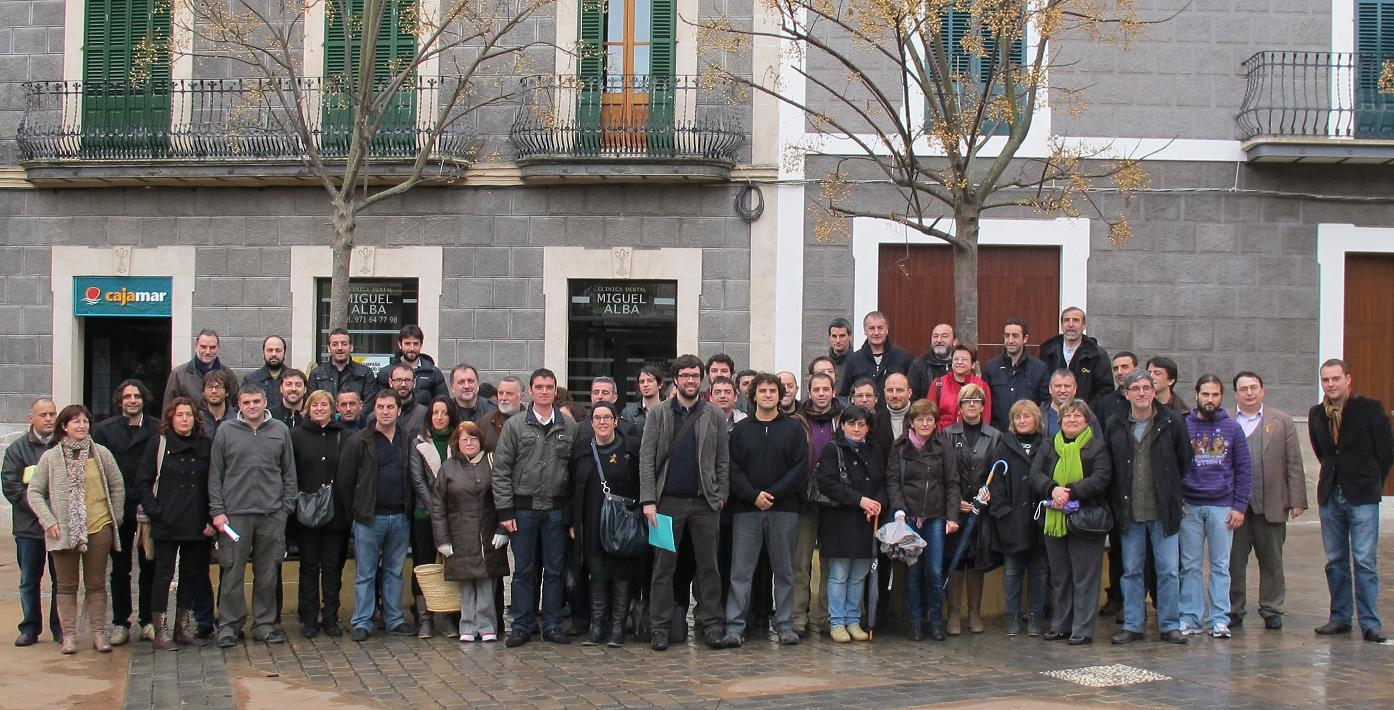 Photograph taken by myself